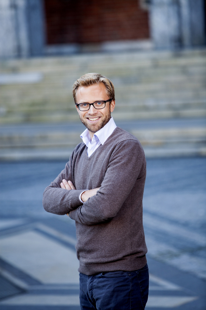 Photo byline: nyebilder.no